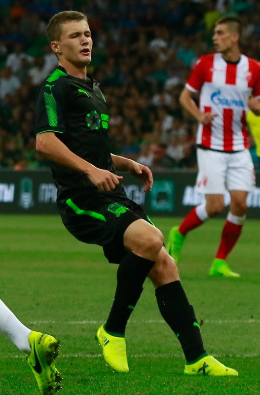 Ivan Ignatyev with FC Krasnodar in a UEFA Europa League game against FK Crvena Zvezda.